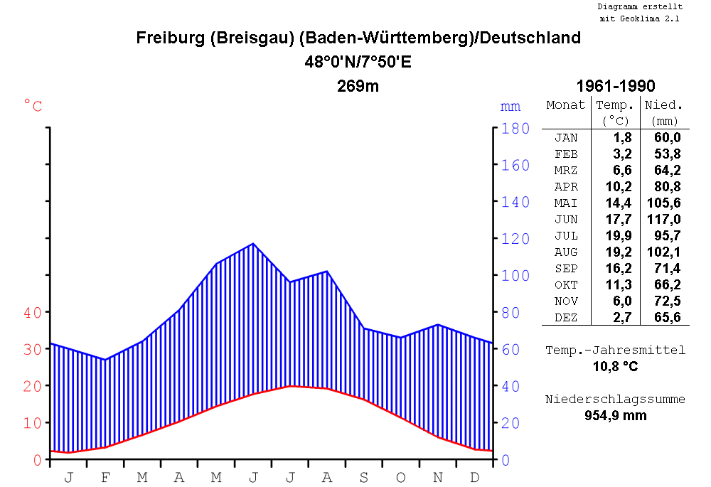 climate chart of Freiburg im Breisgau, Baden-Württemberg, Germany, for the period of time from 1961 to 1990, in the format by Walter and Lieth, metric, °Celsius and millimeters, chart made with Geoklima 2.1, label in German